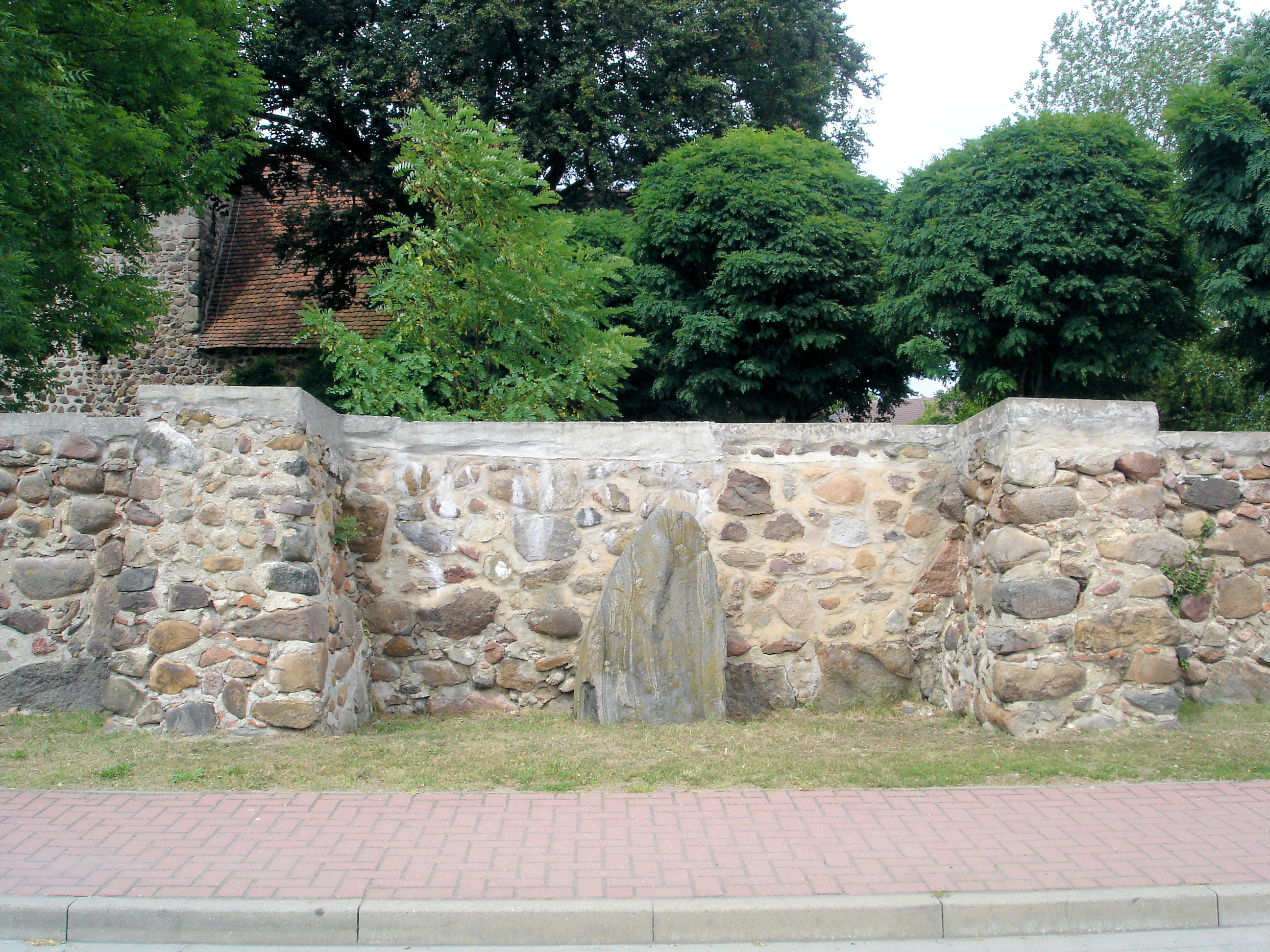 Stone of a cult site at the church in Mahlsdorf, Saxony-Anhalt, Germany